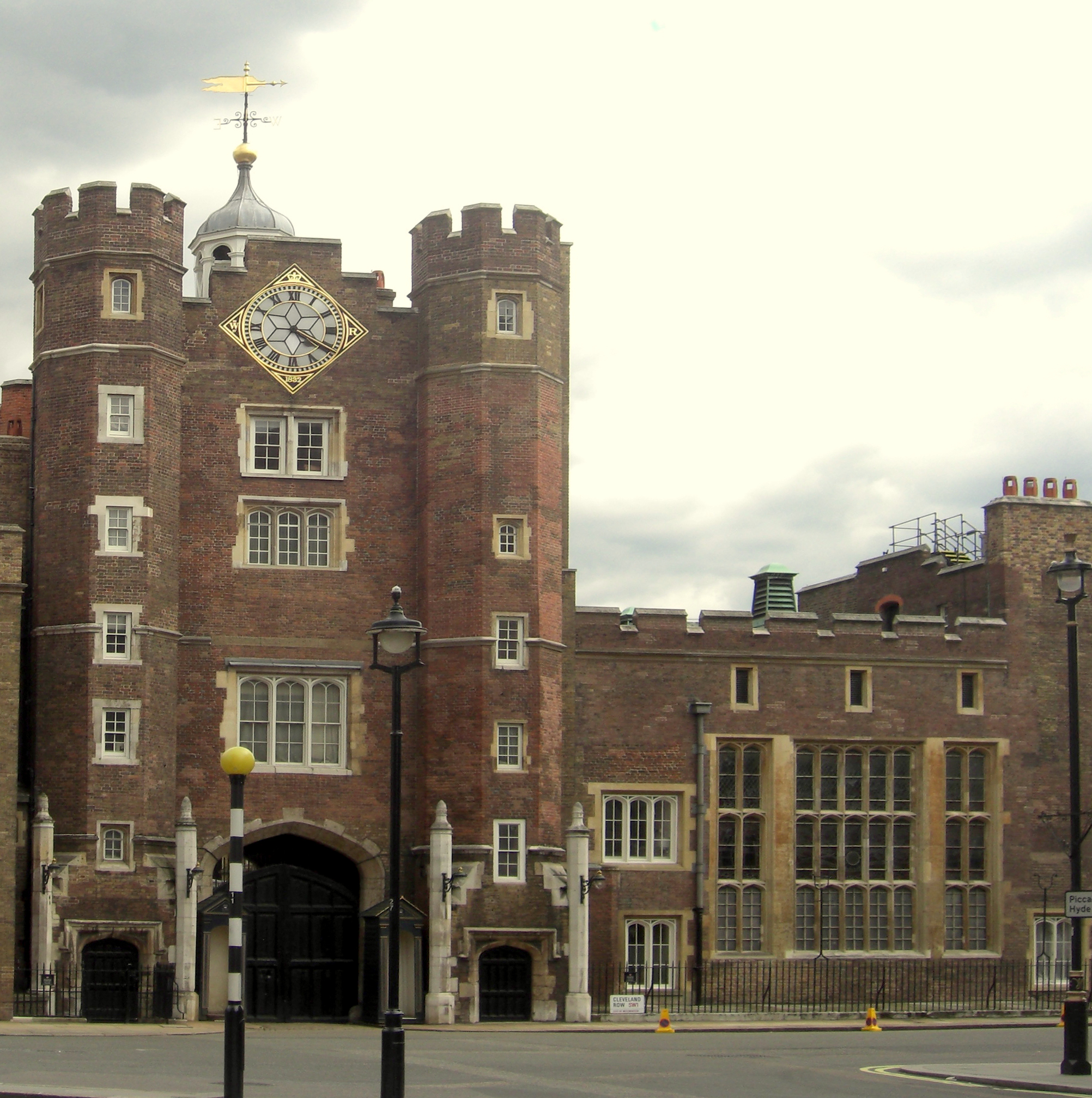 Crop of St James's Palace, Pall Mall, gatehouse 2665083660 The large window on the right is a window of the Chapel Royal